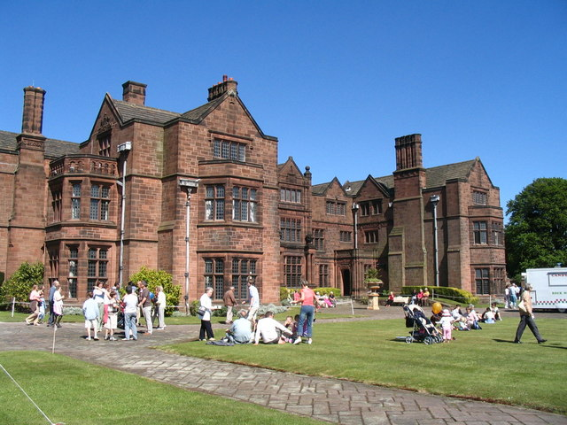 Thornton Manor Open day at Thornton Manor, for many years the home of the Lever family who had established their soap business in nearby Port Sunlight in the 1880's.